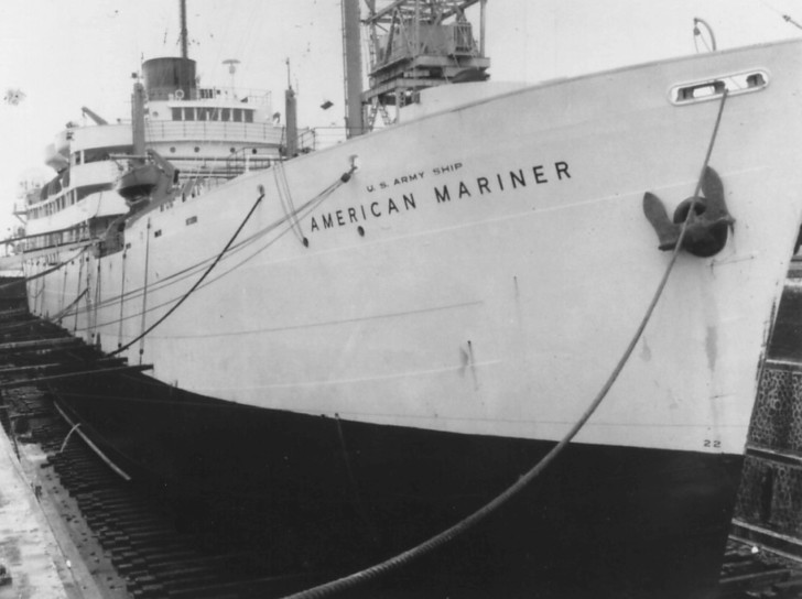 USAS American Mariner getting her bottom scraped and painted at Baltimore, Mryland, 1960.